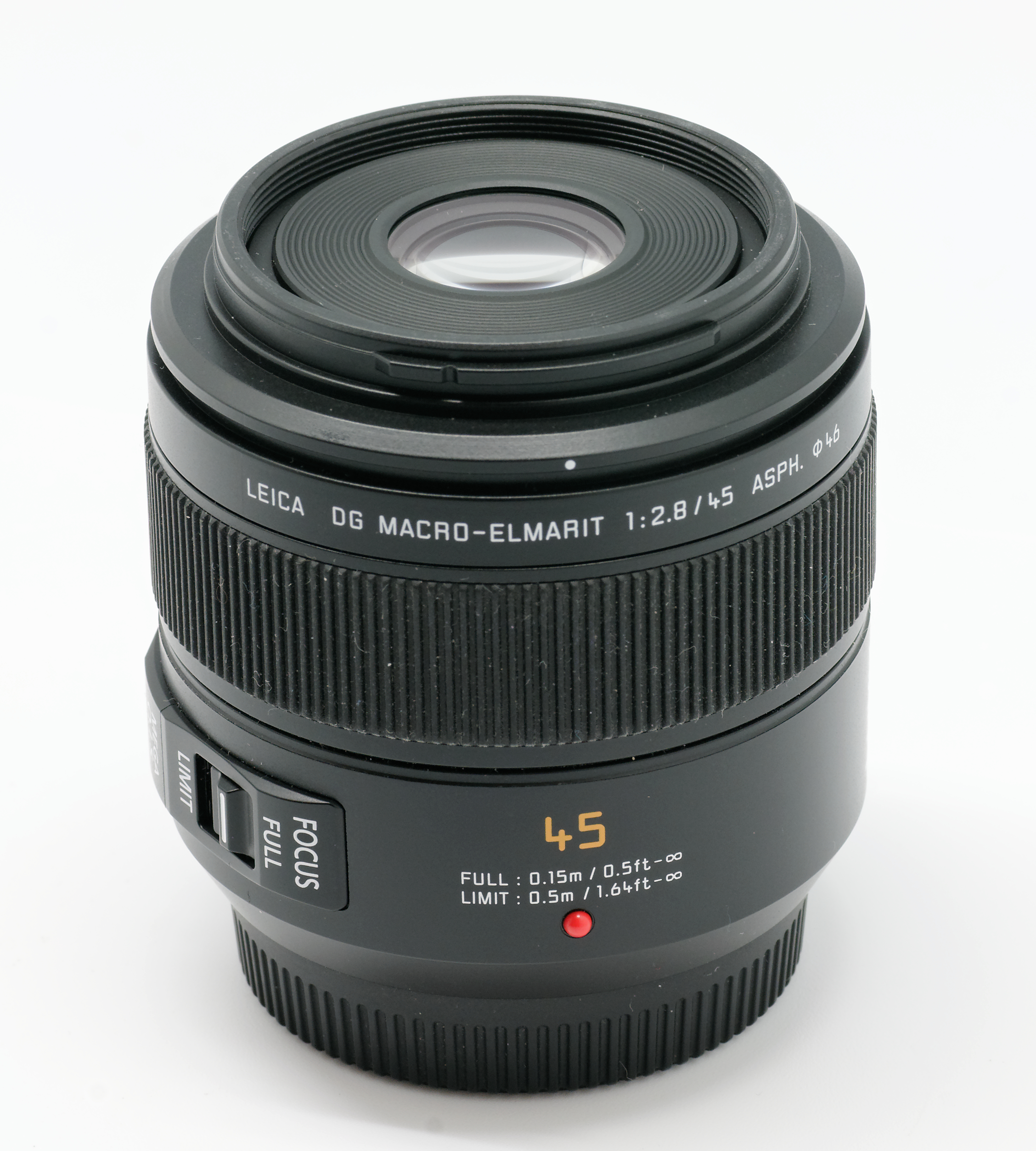 A Panasonic Leica DG Macro-Elmarit 45mm F2.8 ASPH OIS for the μ 4/3 mount.